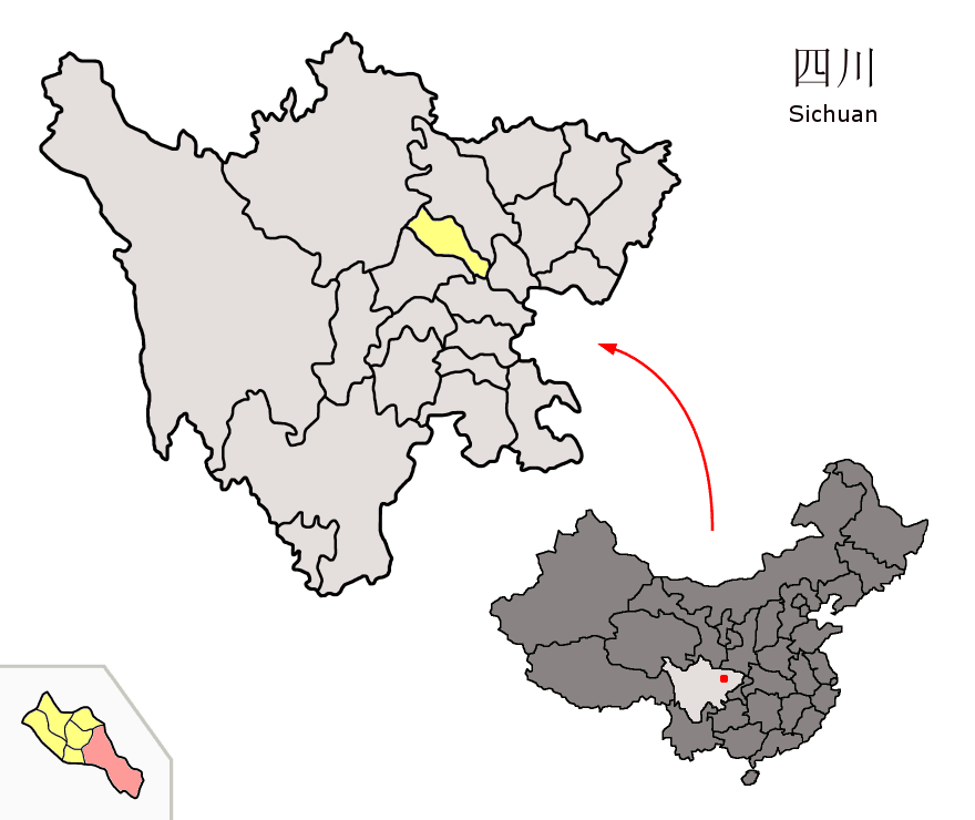 Location of Zhongjiang County (pink) and Deyang Prefecture (yellow) within Sichuan province of China Map drawn in october 2007 using various sources, mainly : Sichuan province administrative regions GIS data: 1:1M, County level, 1990 Sichuan Counties map from